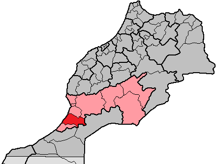 Location of the province Tiznit within the region Souss-Massa-Drâa, Morocco. In total, Morocco has 16 regions, subdivided into 62 provinces and 13 prefectures.